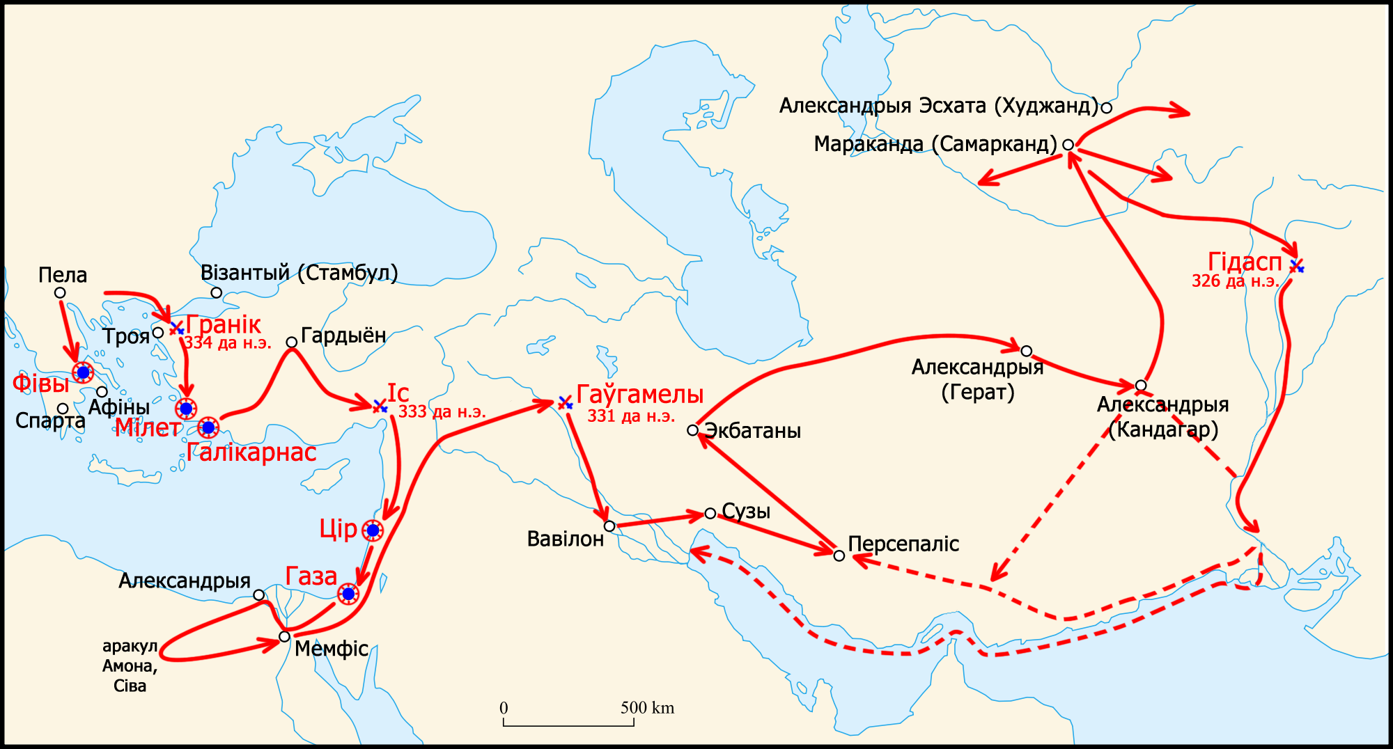 Campaigns of Alexander the Great, in Belarusian